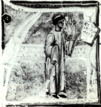 Uc Brunet (Huc Brunets in the image) from BnF MS 12473, folio 86v.